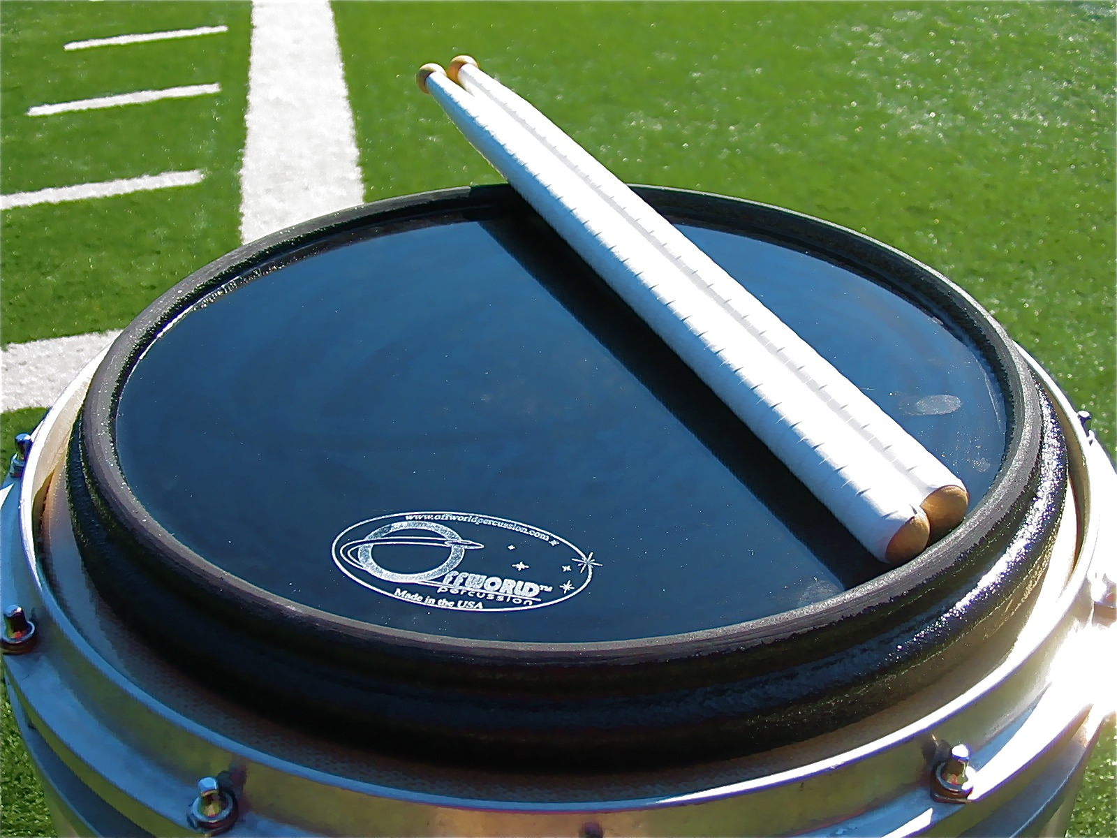 OffWorld Percussion's INVADER™ Pro-Rudimental snare practice pad.